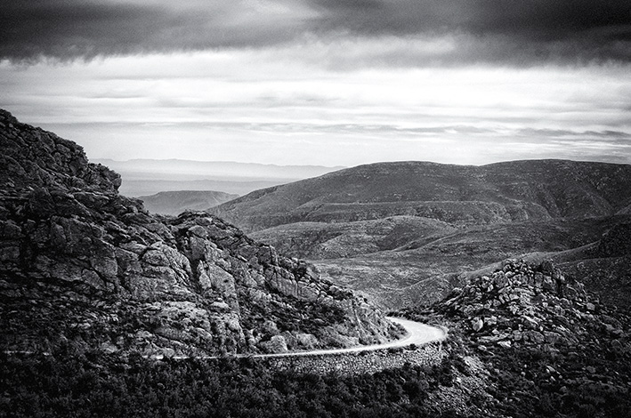 Swartberg Pass. Declared National Monument February 1989. World Heritage Site. This media shows a South African Protected Site with SAHRA file reference [1].